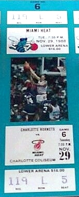 A ticket for a November 29, 1988 National Basketball Association game featuring the Miami Heat versus the Charlotte Hornets at the Charlotte Coliseum. This would be both the Hornets' and the Heat's first ever regular season NBA game against each other.